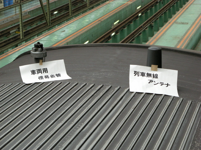 Anntena on the roof of JR East E231-1000 (Suburban Type), Taken at Oyama Depot Open Day 2007, 15 September 2007